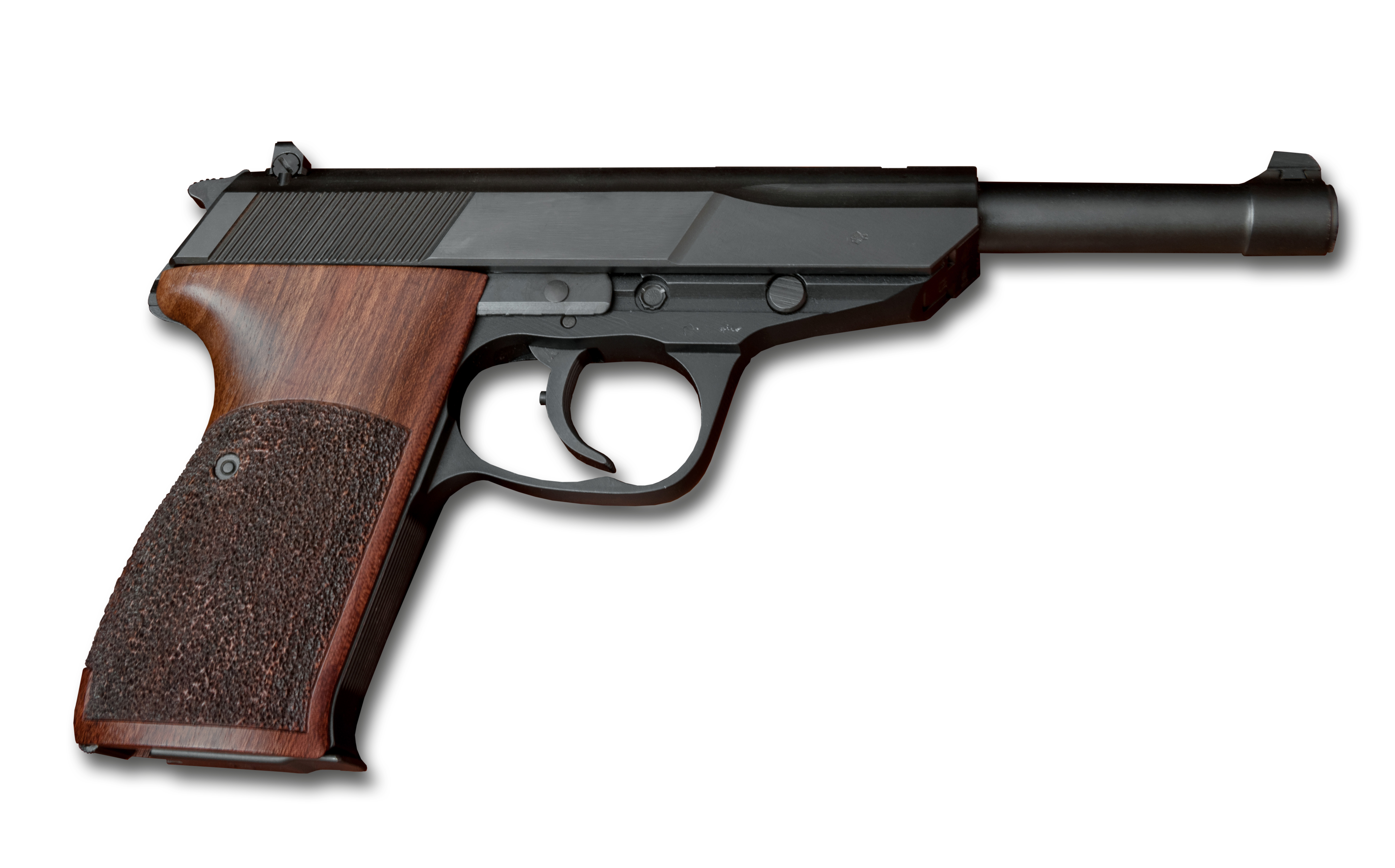 Walther P5 Long